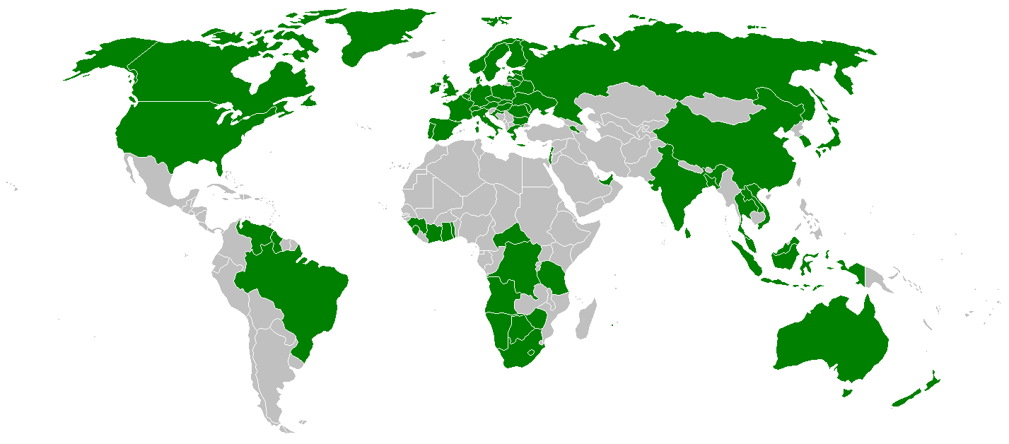 Countries participating in the Kimberley Process Certification Scheme